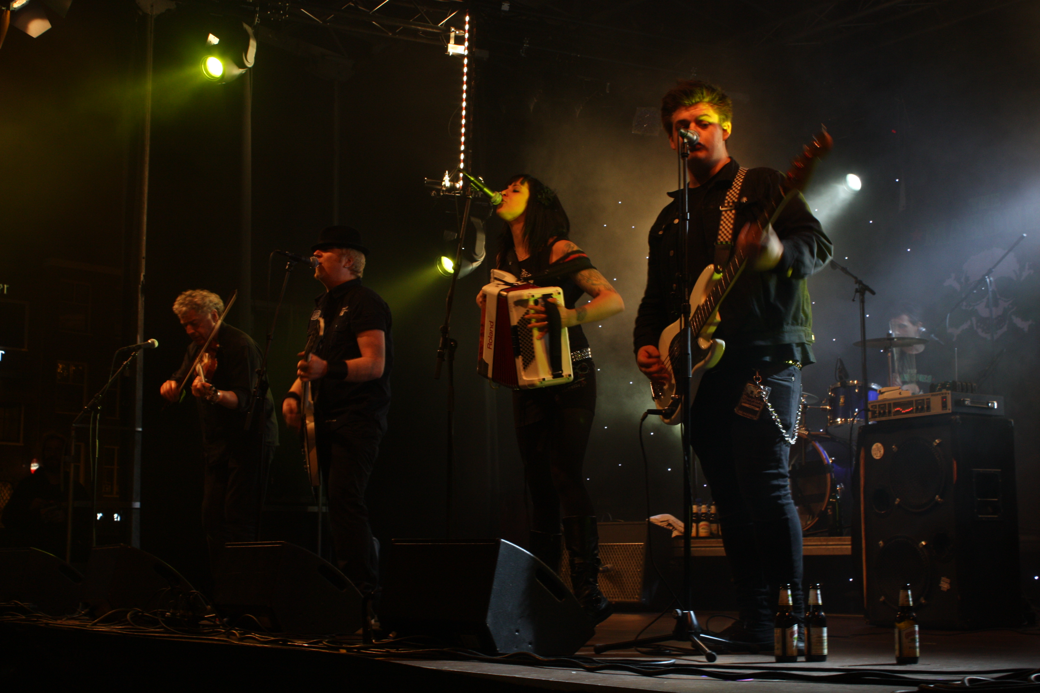 The Mahones performing at Queen's Day in Groningen (Holland).